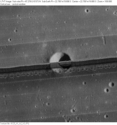 LO-IV-125H The streak across the middle of the frame is a defect in the development of the Lunar Orbiter film.